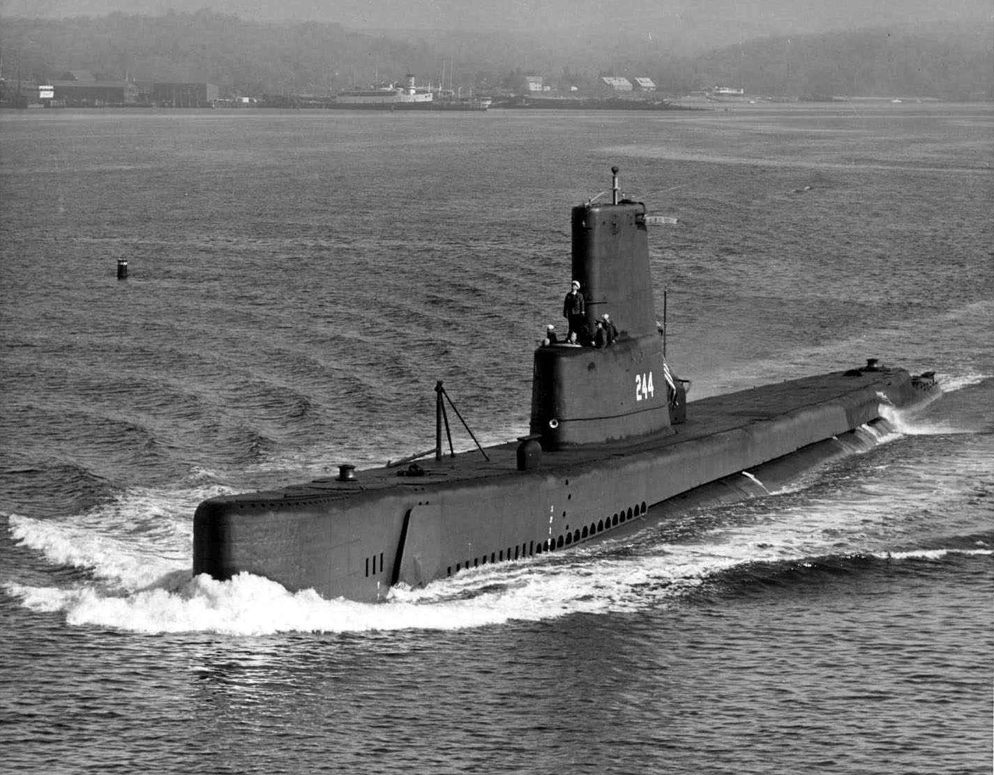 Cavalla (SS-244) goes out on an op some time in 1960.